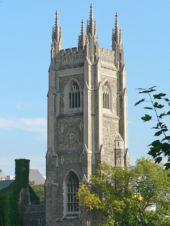 A Gothic tower dedicated to fallen soldiers of WWI and WWII in Toronto